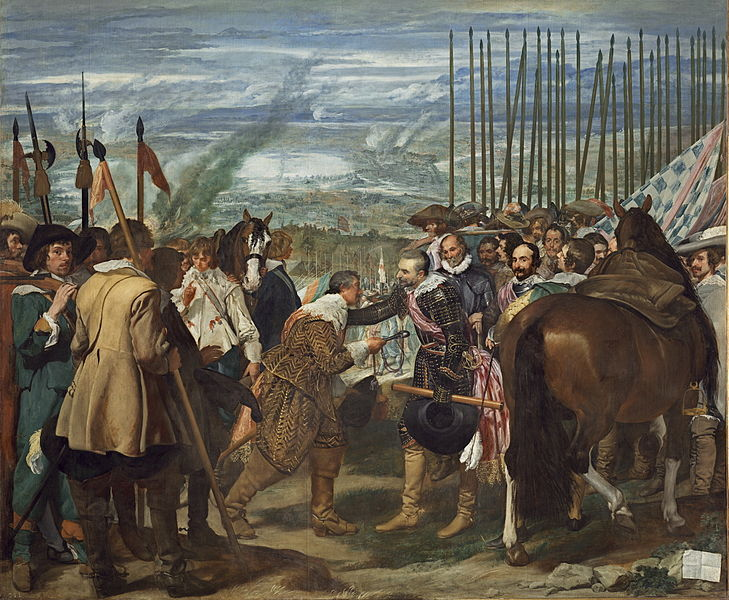 Surrender of Breda to Spinola by Diego Velázquez after the siege.